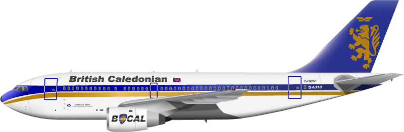 A British Caledonian Airbus A310 circa 1984.